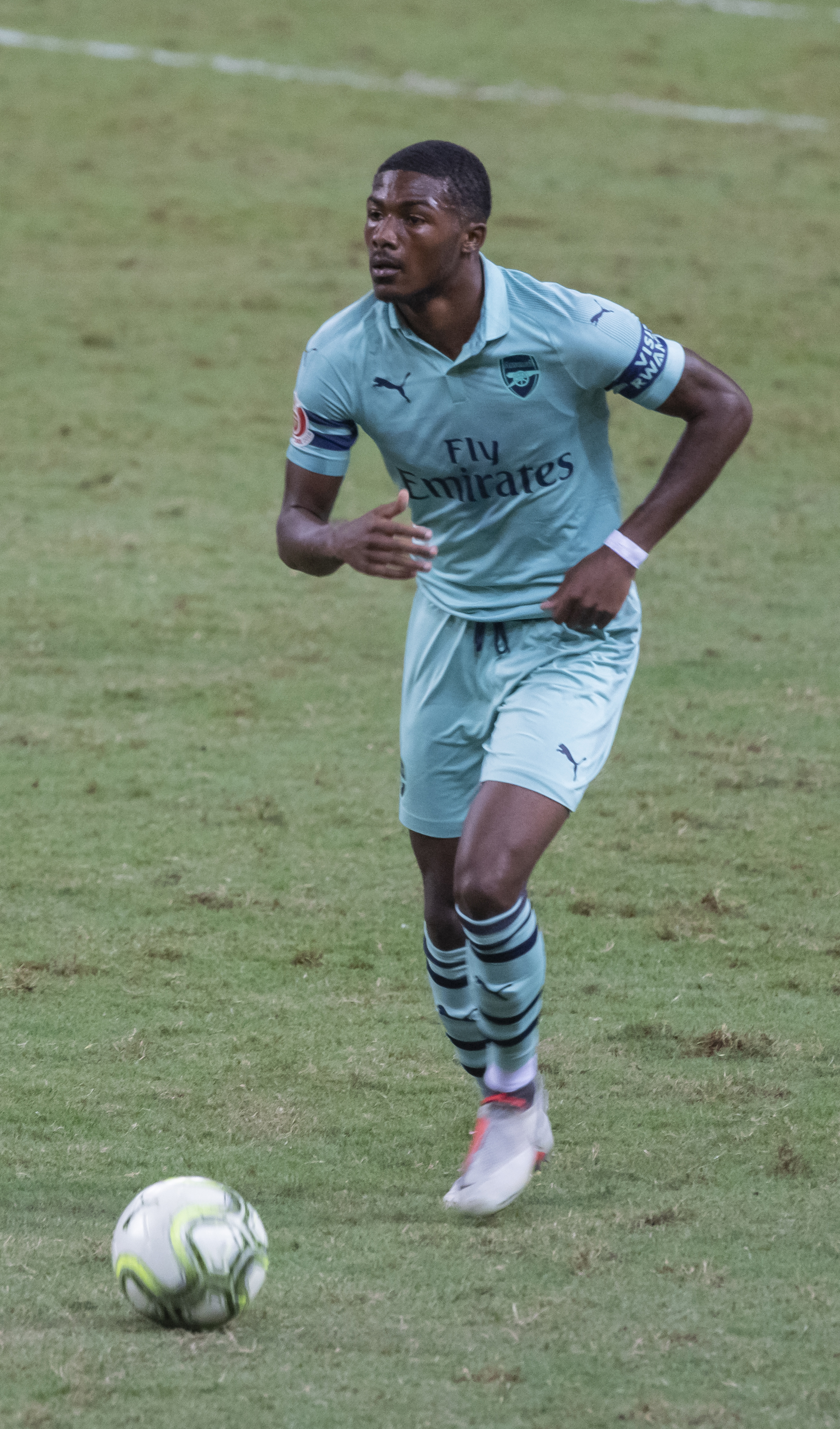 Ainsley Maitland-Niles International Champions Cup Arsenal v PSG Singapore National Stadium 2018